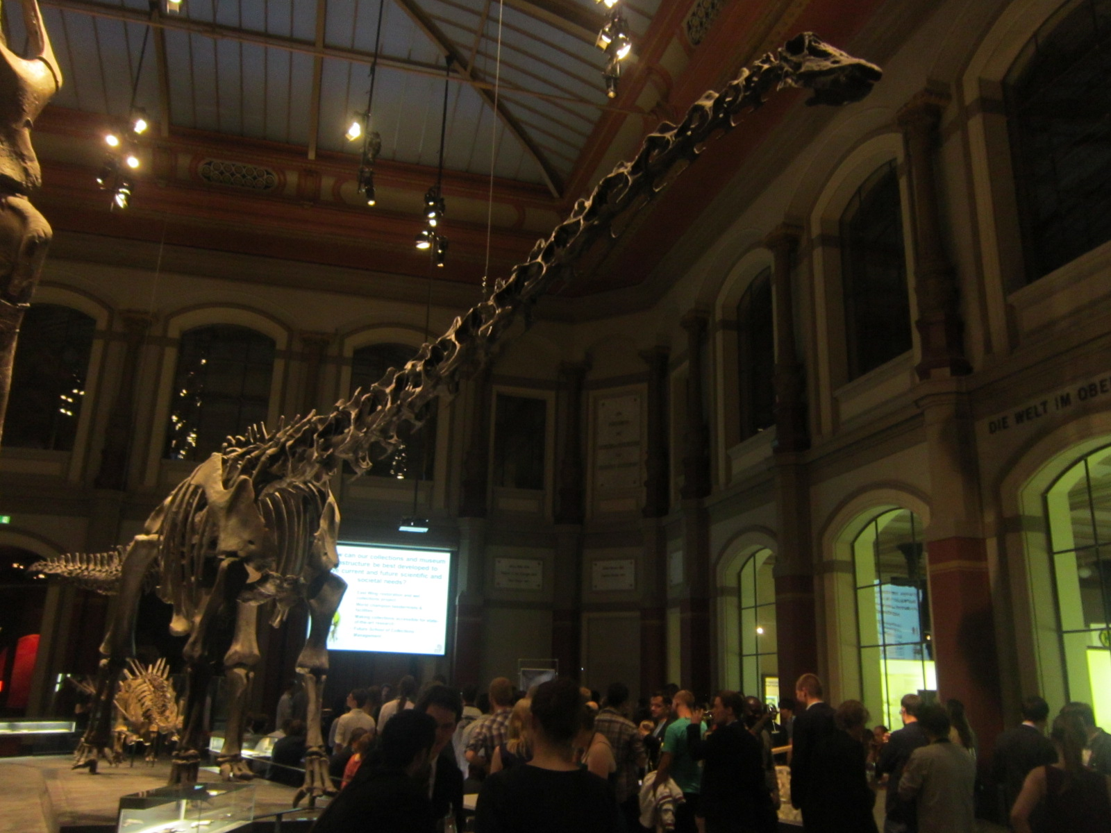 Skeleton of Diplodocus in Museum of Berlin